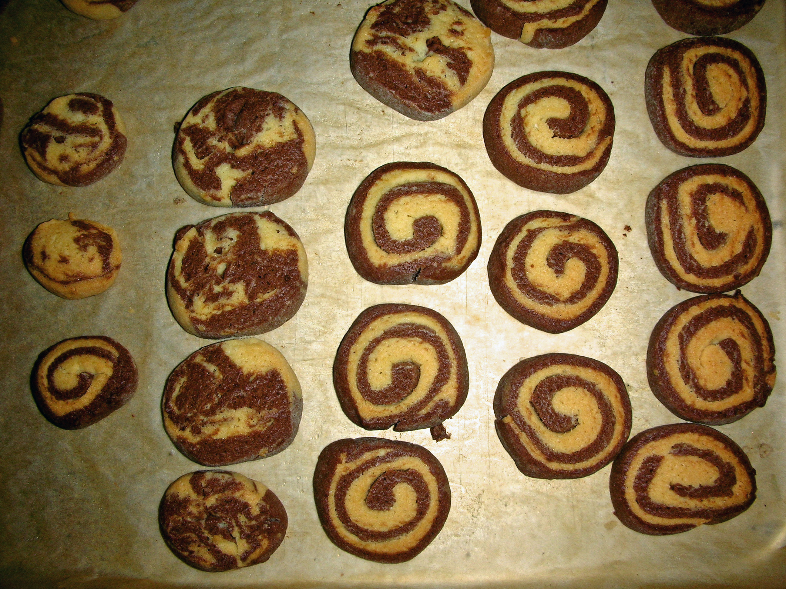 Black and white cookies